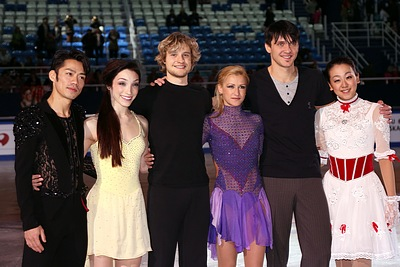 Gold Medalists at the exhibition gala of the 2012-2013 Grand Prix of Figure Skating Final.